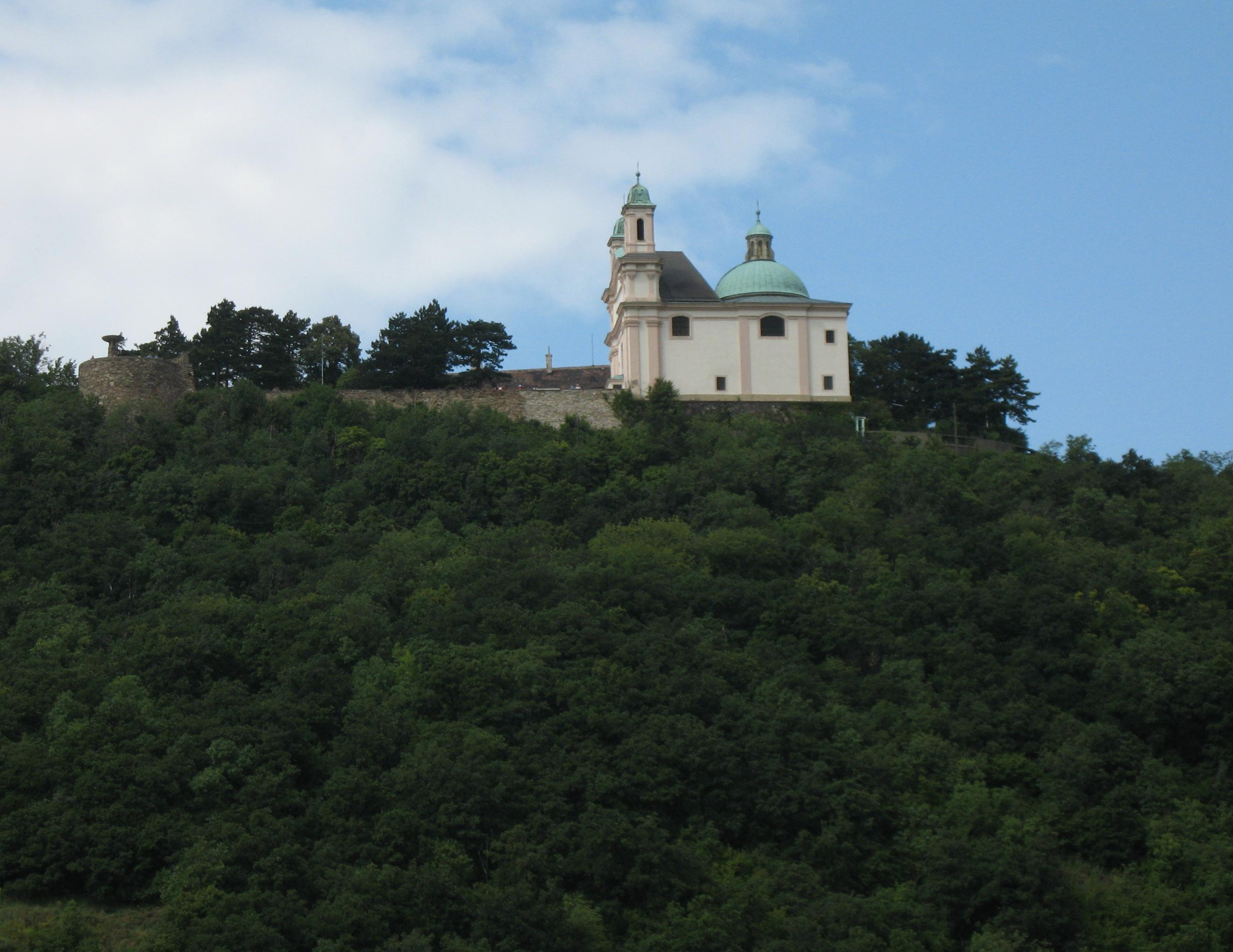 Saint Leopold church on Leopoldsberg in Vienna, Austria